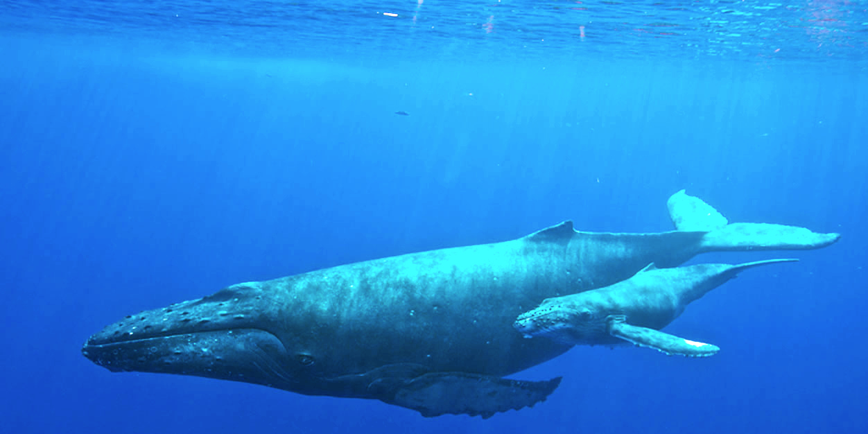 A female Humpback whale with her calf. Humpback whales are baleen whales. Rather than teeth, they have fringed overlapping plates hanging down from each side of the upper jaw, called baleen plates. The plates are made of keratin. Humpbacks' heads are broad and rounded and covered with knobs, called tubercles. Each knob contains at least one stiff hair. •Type: Rorqual. •Scientific Name: Megaptera novaeangliae. •Family: Balaenopteridae. •Diet: Krill. •Calf Weight: 1 ton. •Gestation Period: 10-18 months. •Habtiat: Ocean. •Threats: Nets, Ships, Whalers. •Group Size: 1-15